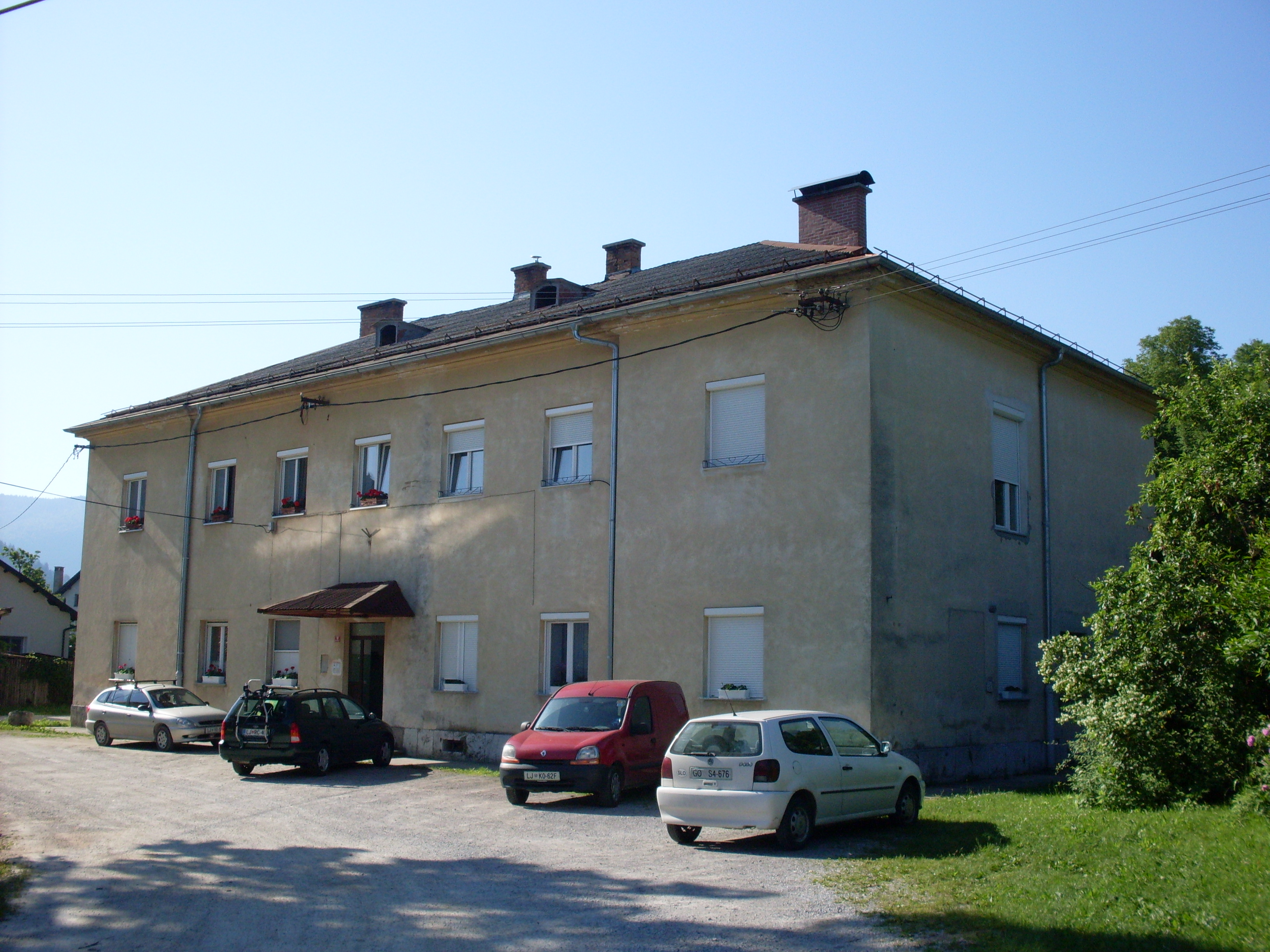 Former train station in Borovnica, Slovenia, located at the western tip of the Borovnica viaduct. It was in use till 1947 when the line was rerouted into the valley where the new station was built